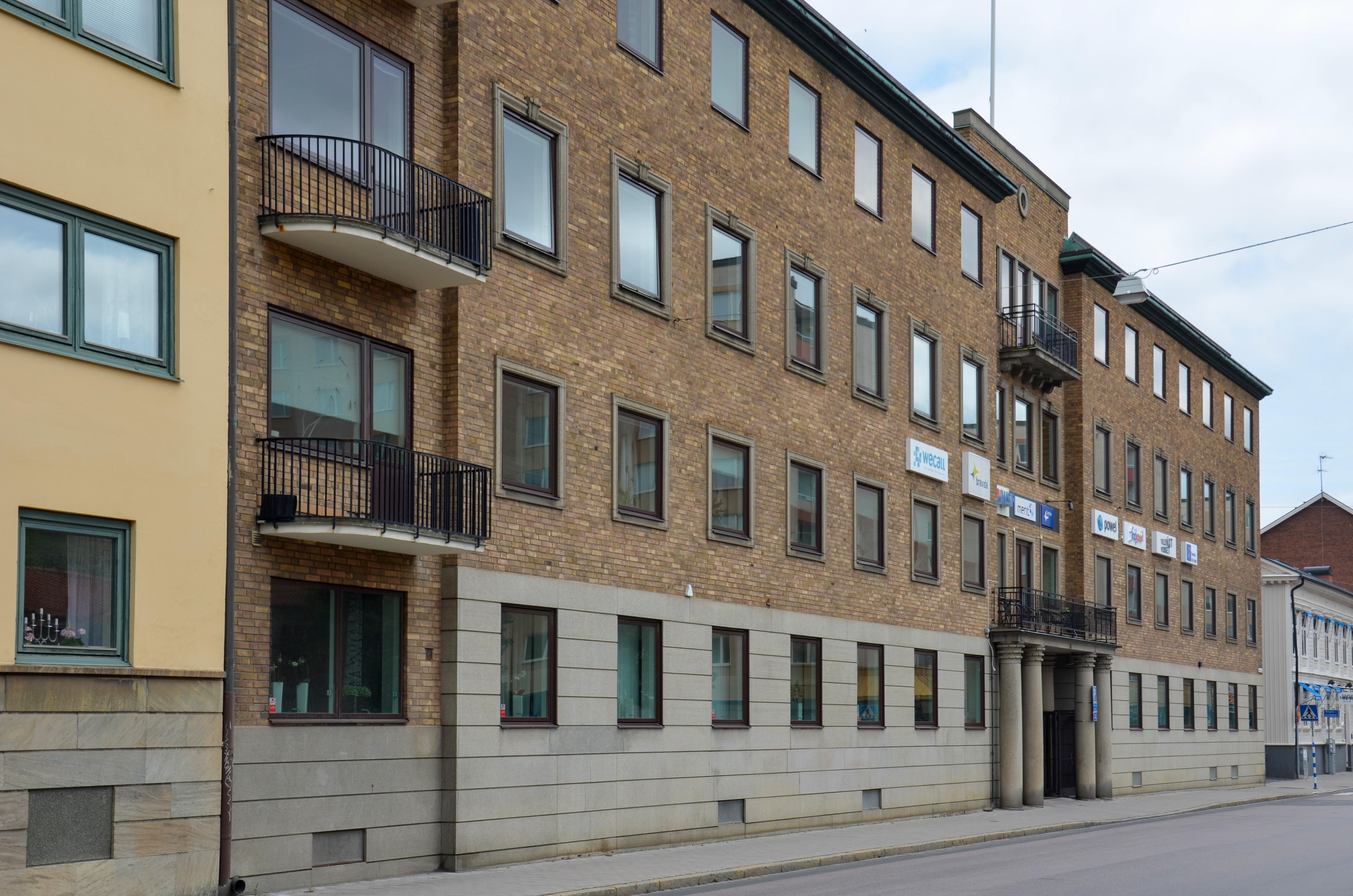 Försäkringsbolaget Allmänna Brands huvudkontor, Östra Storgatan i Jönköping. Byggnadsår: 1940 Arkitekt: Göran Pauli